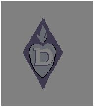 Hallmark by Pierre Gabriel Germain Dutalis, 1815-1832